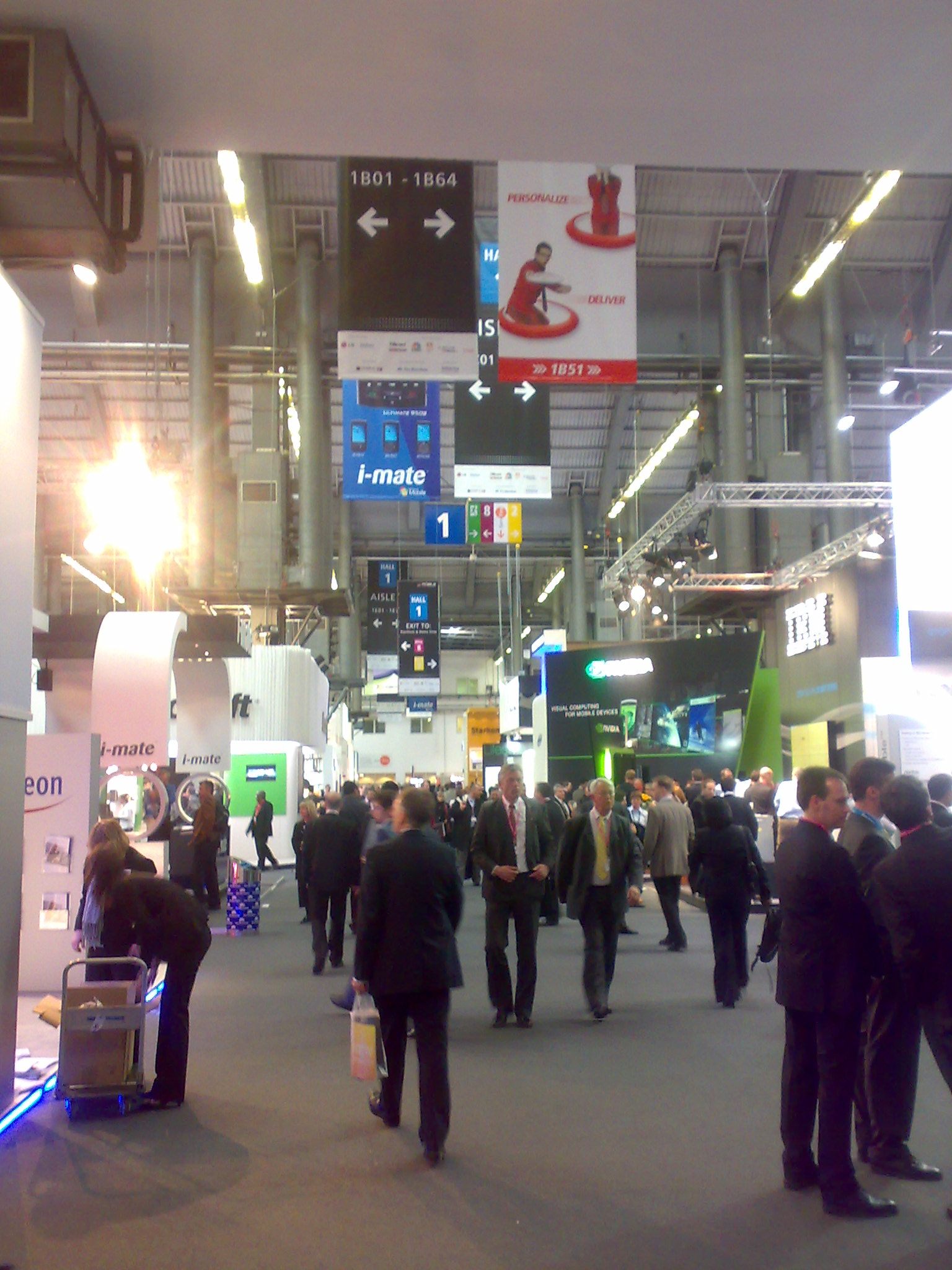 GSMA Conference Barcelona, february 2008